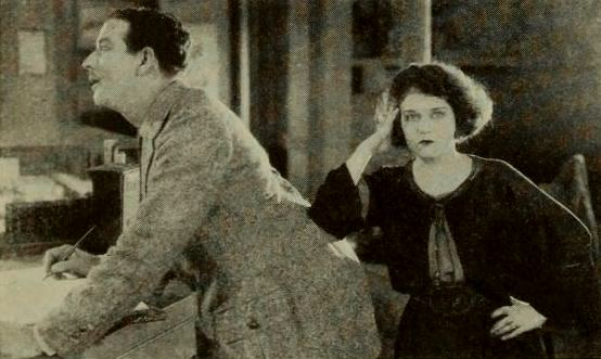 Still from the American comedy romance film Seeing's Believing (1922) with Philo McCullough and Viola Dana, on page 62 of the June 1922 Photoplay Magazine.